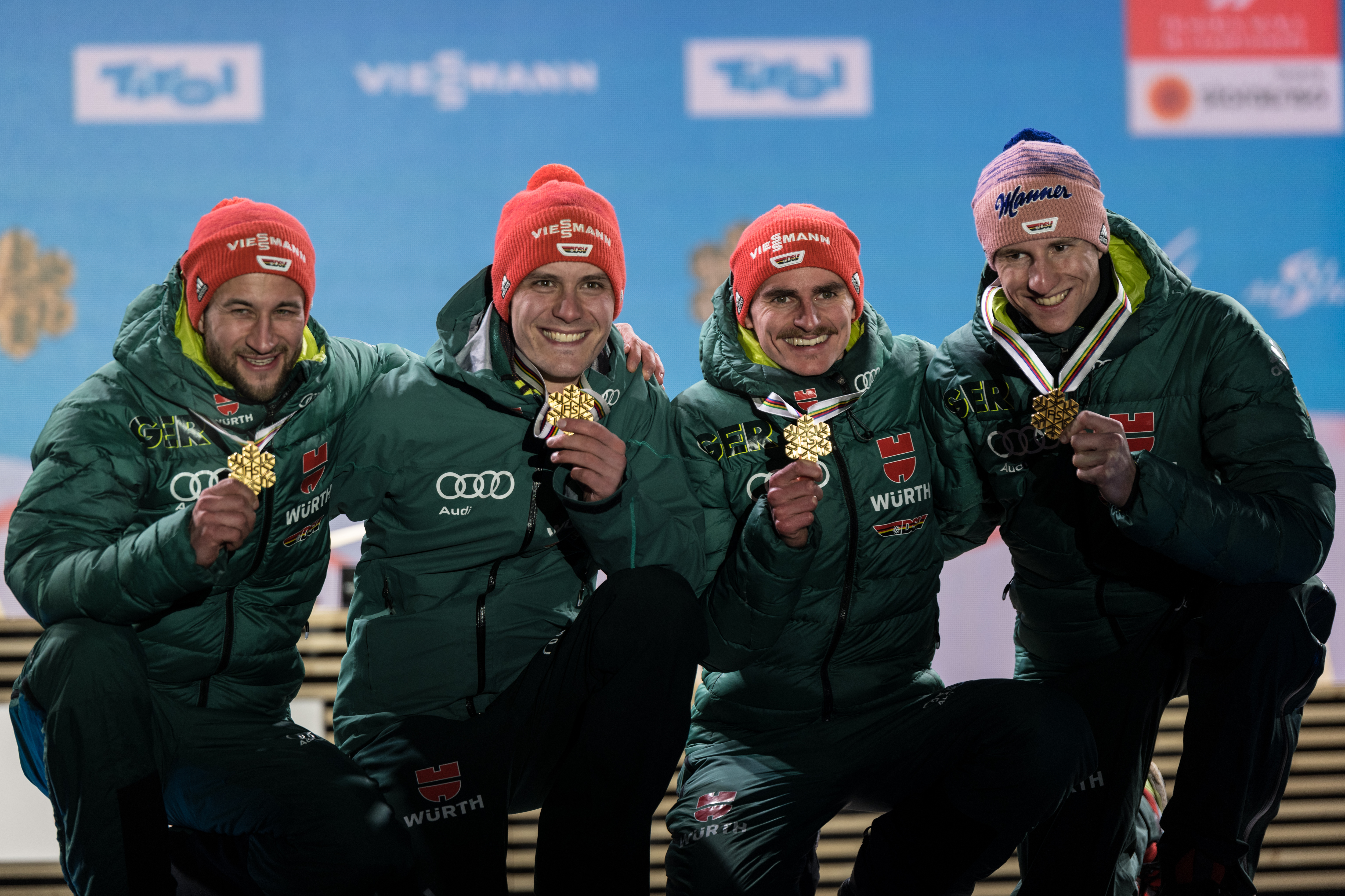 FIS Nordic Wolrd Championships Seefeld 2019 - Medal Ceremony at the Medal Plaza. Picture shows Markus Eisenbichler (GER), Stephan Leyhe (GER), Richard Freitag (GER), Karl Geiger (GER)